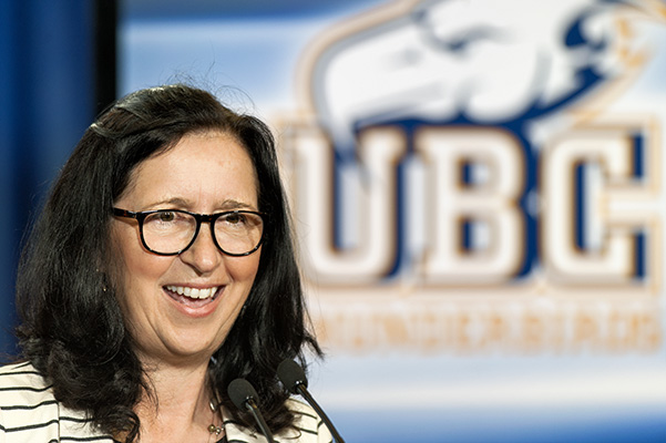 Photo of Tricia Smith, Canadian rower and lawyer.